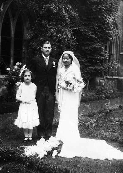 Qian Xiuling (1912–2008) was a Chinese Scientist who won medals in Belgium from